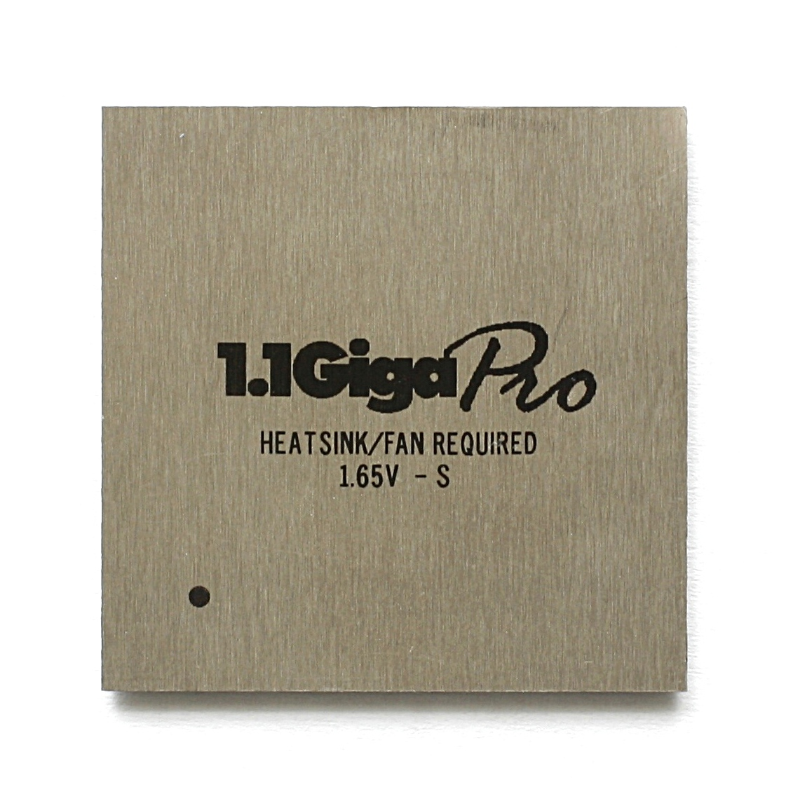 CPU VIA 1.1Giga Pro (VIA C3, Samuel 2), BGA